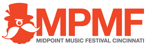 Generic logo for MidPoint Music Festival